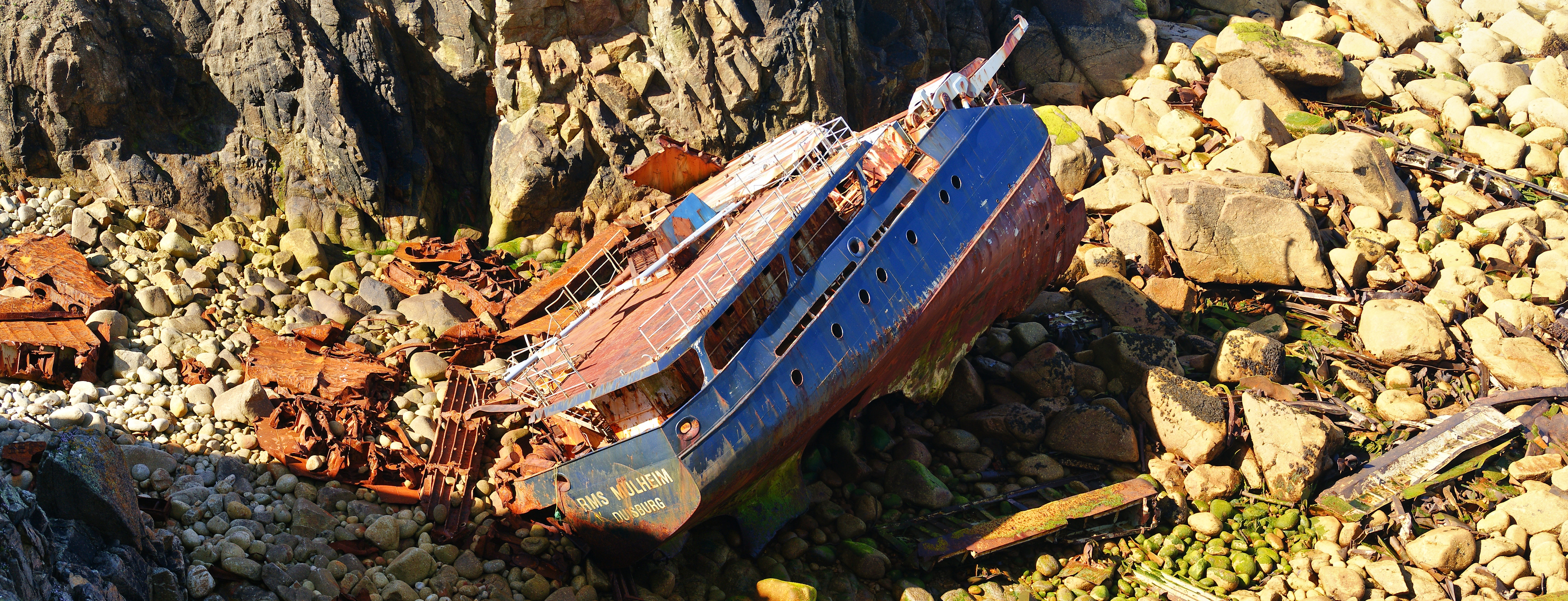 Remains of the RMS Mülheim near Lands End in Cornwall, UK. It went aground in March 2003.